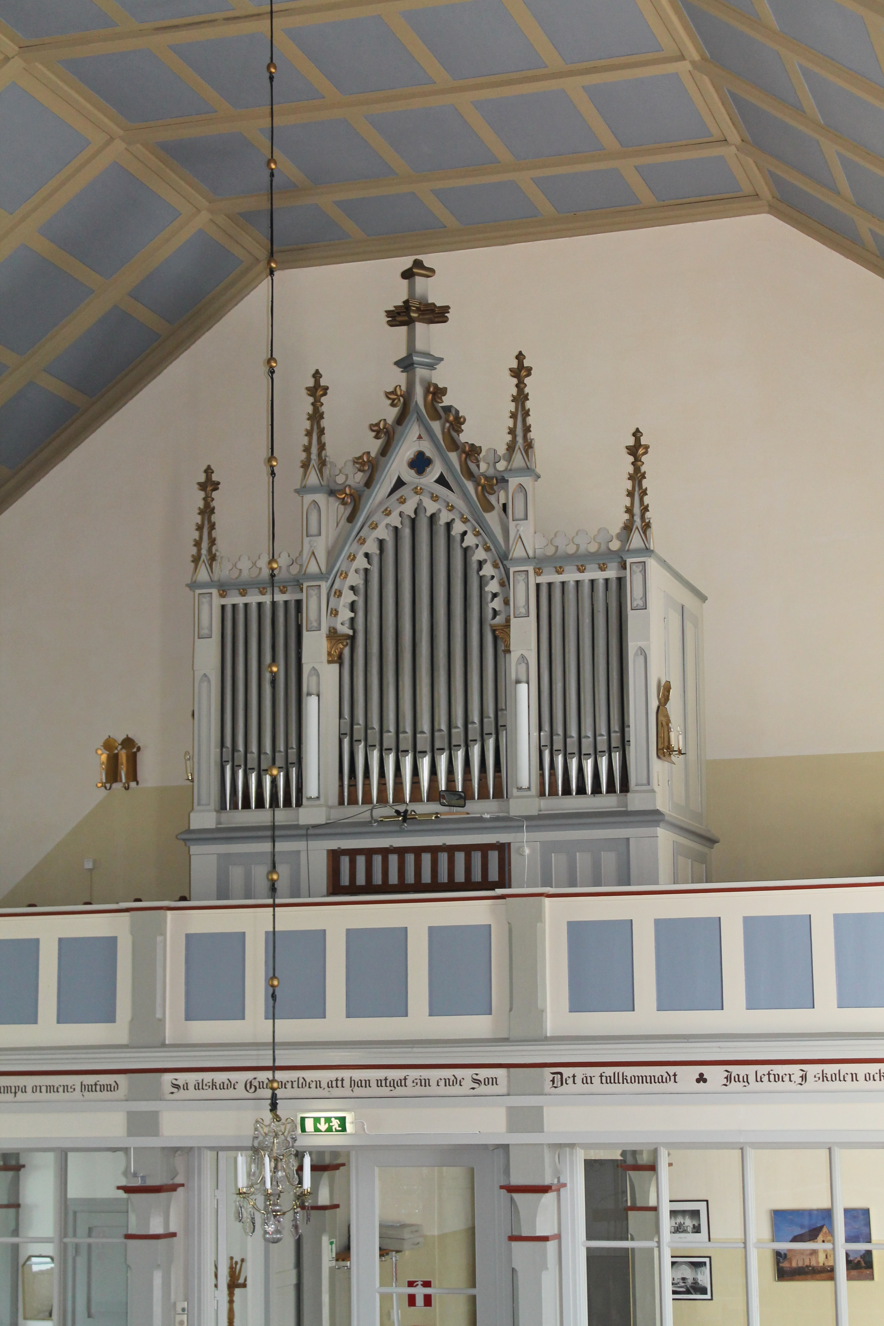 Källa new Church.Organ